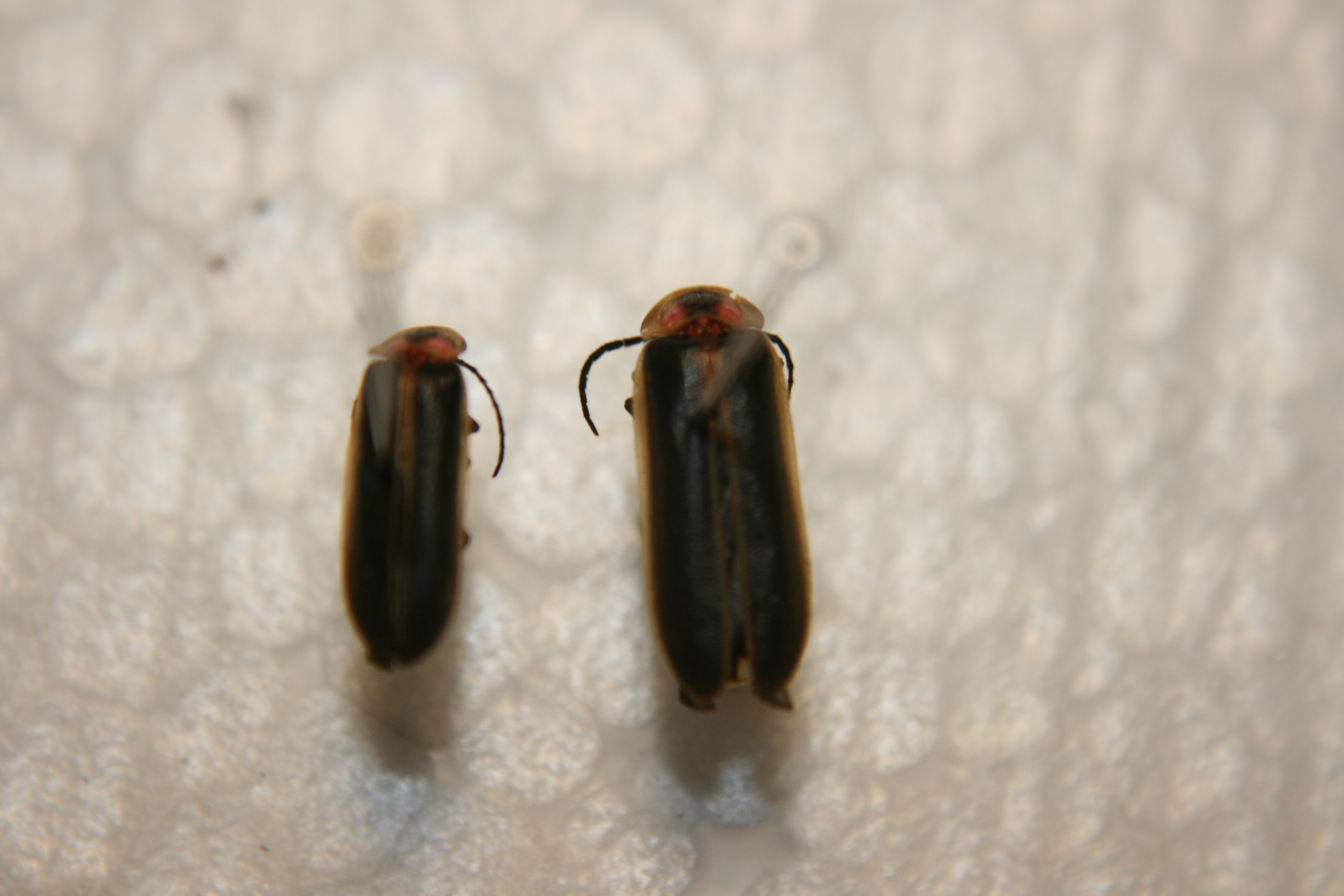 A Photinus sp. in the Hough collection, caught July 3rd, 2007.